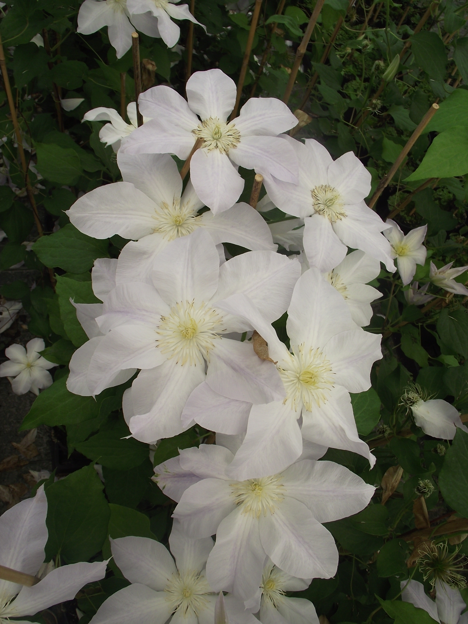 Clematis patens evipo003